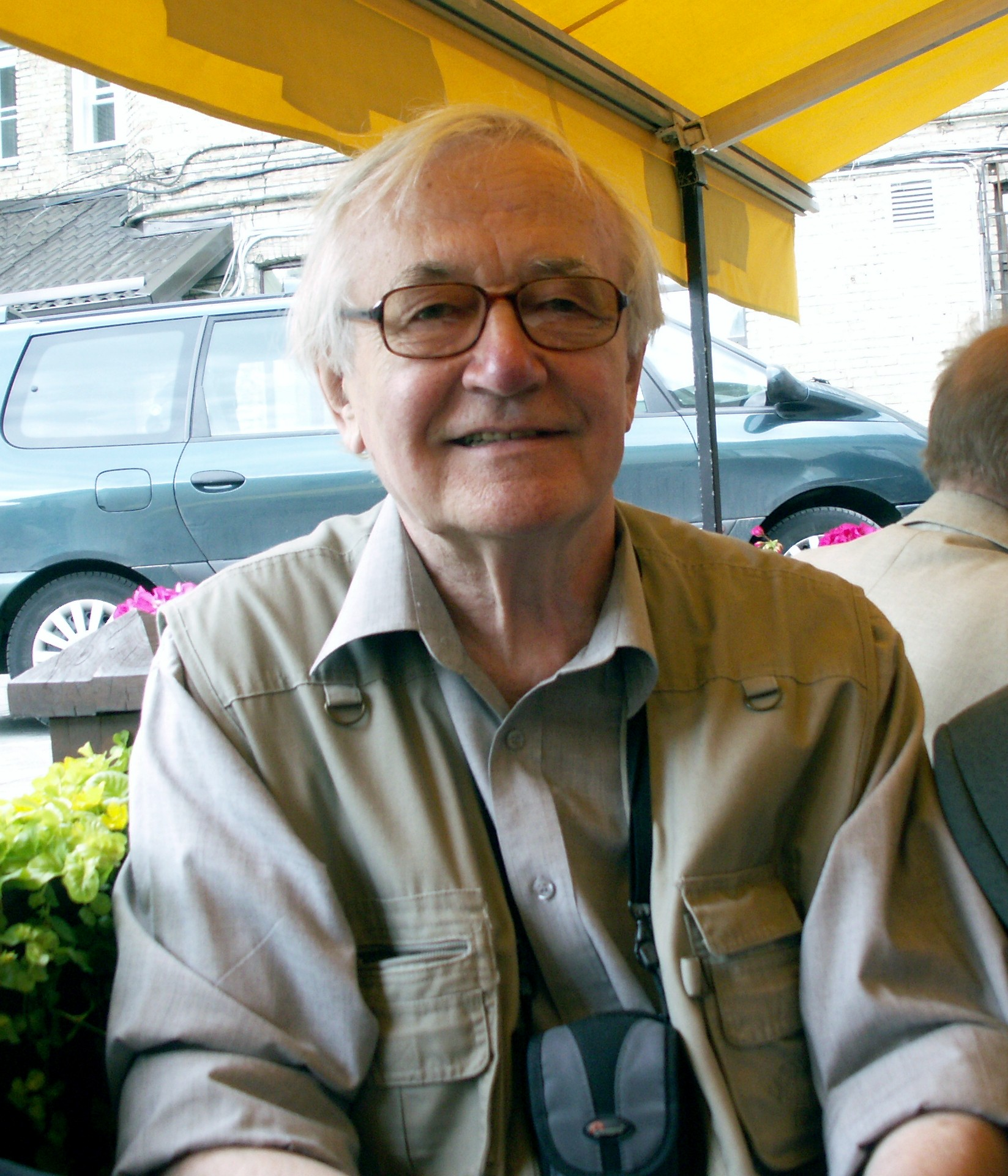 Rimantas Dichavičius, Photographer, Lithuania